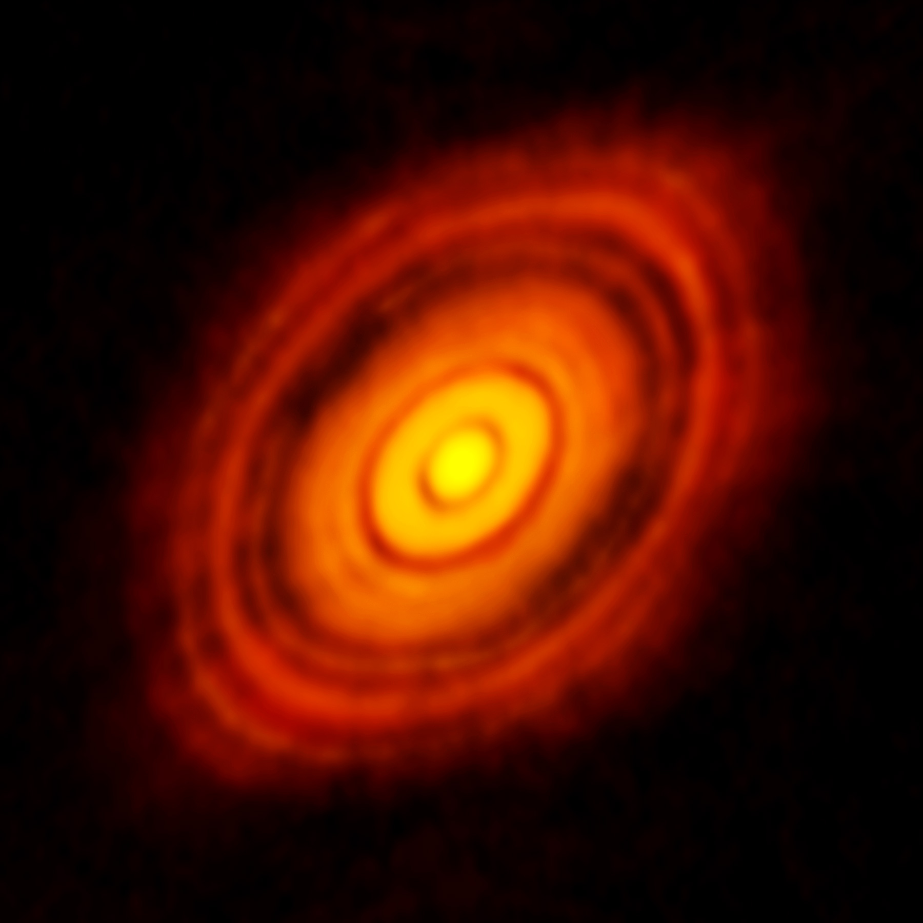 ALMA image of the protoplanetary disc around HL Tauri - This is the sharpest image ever taken by ALMA — sharper than is routinely achieved in visible light with the NASA/ESA Hubble Space Telescope. It shows the protoplanetary disc surrounding the young star HL Tauri. These new ALMA observations reveal substructures within the disc that have never been seen before and even show the possible positions of planets forming in the dark patches within the system. About the Object Name: HL Tauri Type: • Milky Way : Star : Circumstellar Material : Disk : Protoplanetary • X - Stars Distance: 450 light years Constellation: Taurus Coordinates Position (RA): 4 31 38.37 Position (Dec): 18° 14' 0.99" Field of view: 0.03 x 0.03 arcminutes Orientation: North is 0.0° left of vertical .